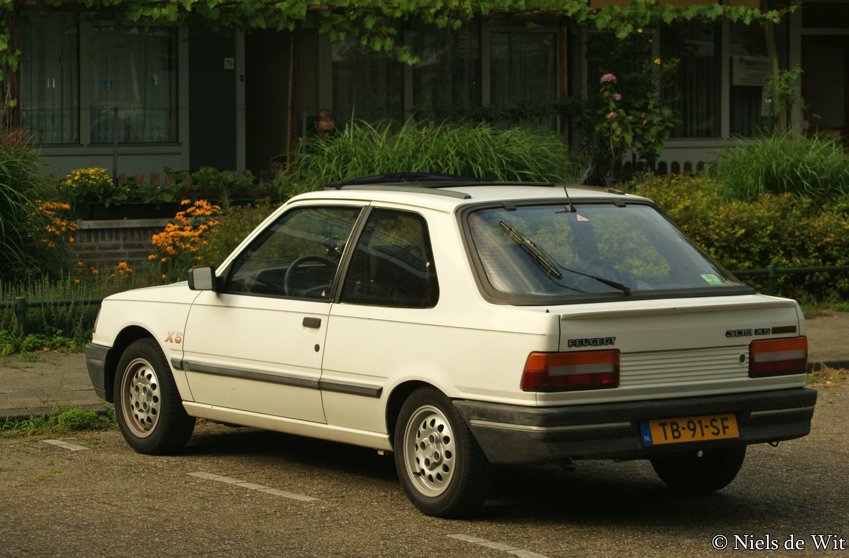 TB-91-SF Limited edition, only 5.000 made!